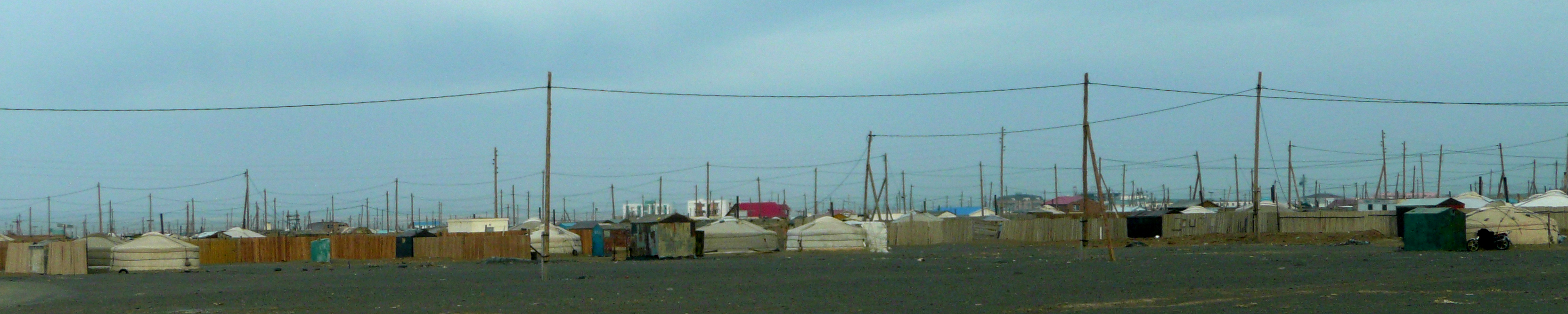 Ger camps of Dalanzadgad